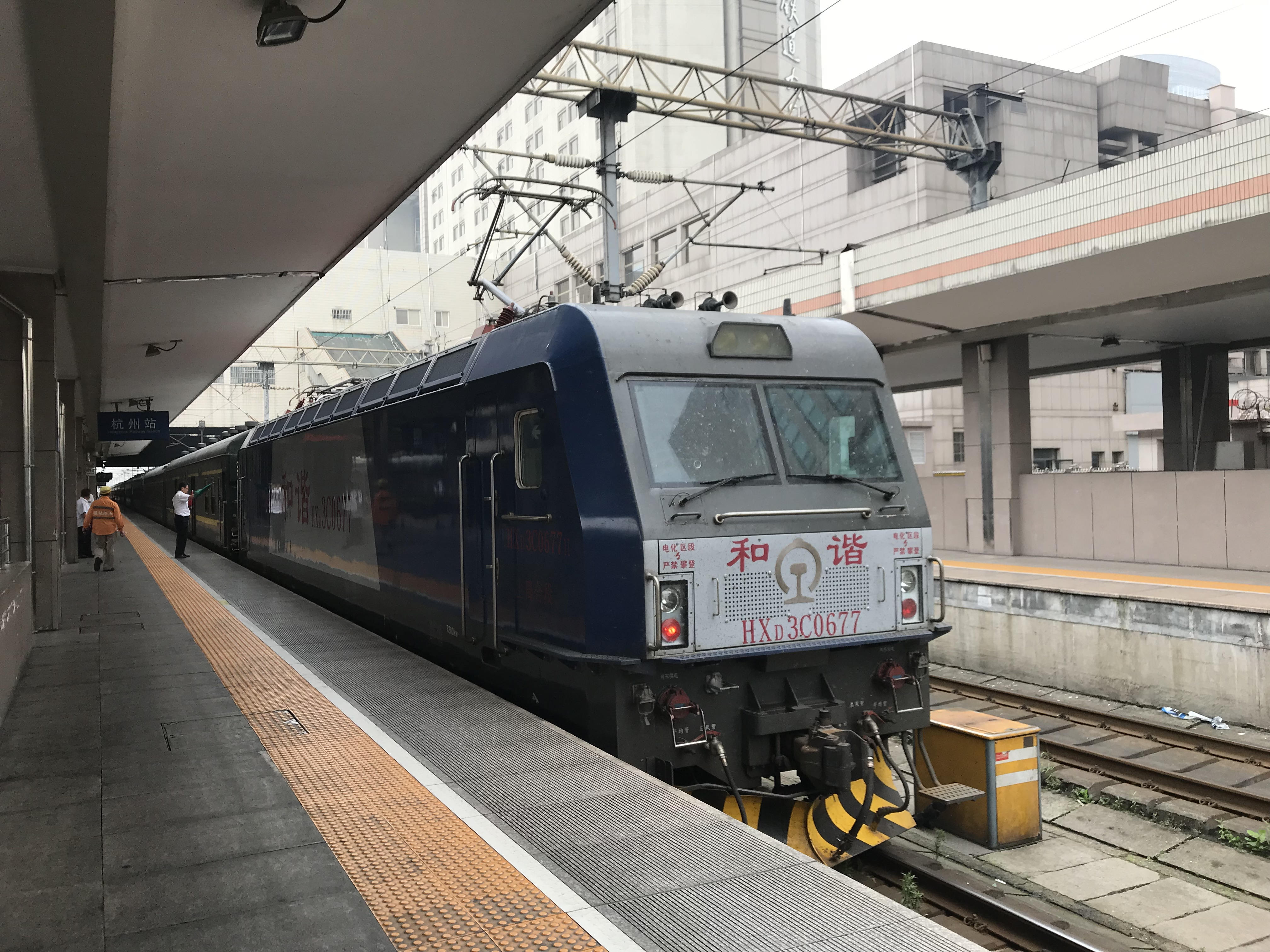 Hefei-based HXD3Cs have been invaded to Hangzhou...